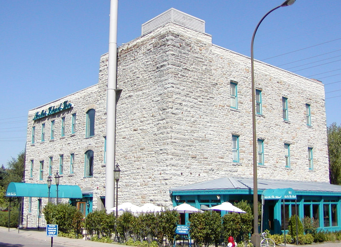 Nicollet Island Inn, Minneapolis, Minnesota